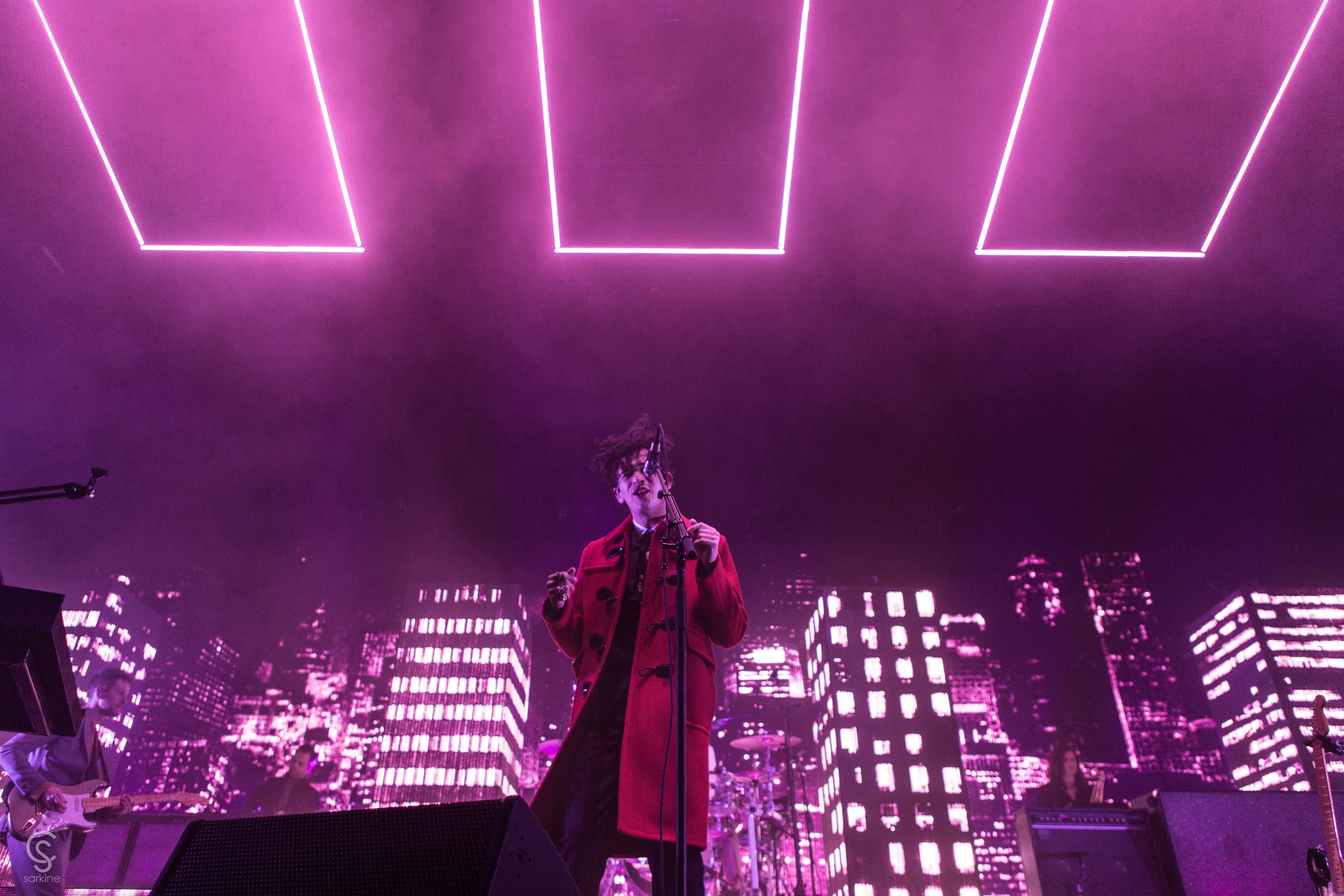 The 1975 in Indianapolis. 11.16.16